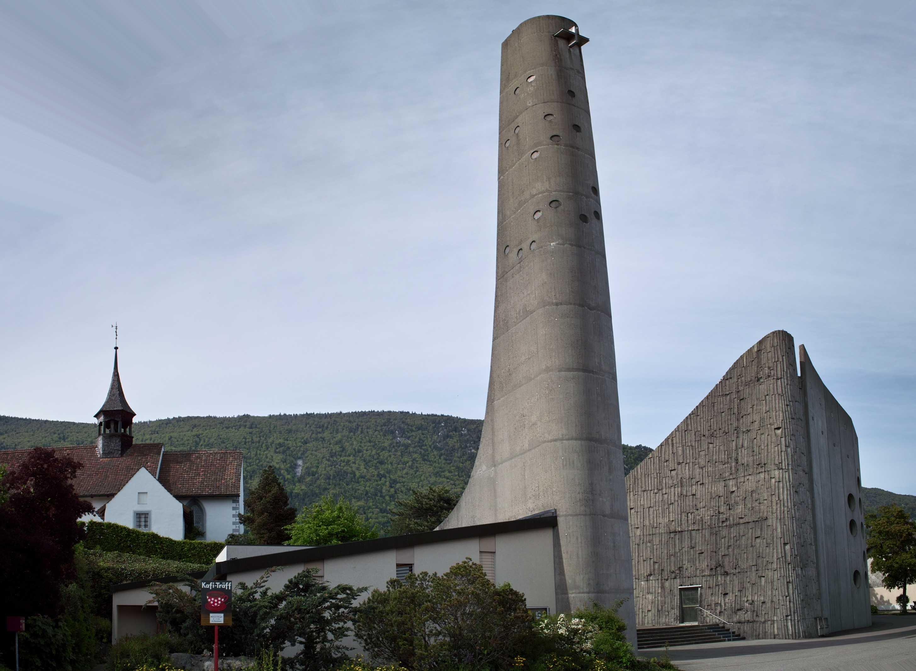 Roman Catholic church of the Holy Spirit (Heiliggeistkirche) and St. Germans Chapel in Lommiswil, canton of Solothurn, Switzerland.